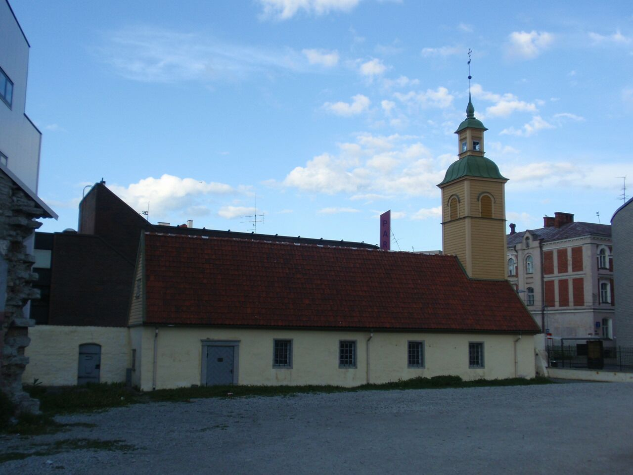 Church of St John's almshouse, Tallinn.